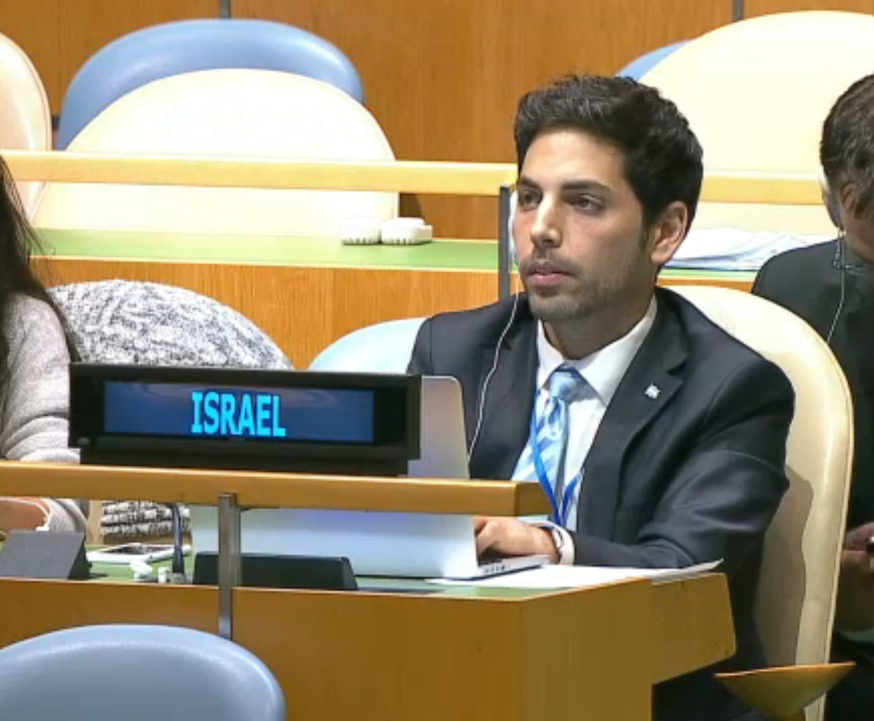 Bitton at the Israeli seat in the UN General Assembly in New York